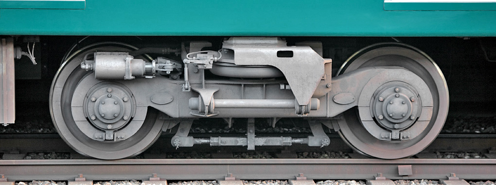 Kisyaseizo Economical truck type KS76A of Keihan 5000 Series EMU ( 5204 ).